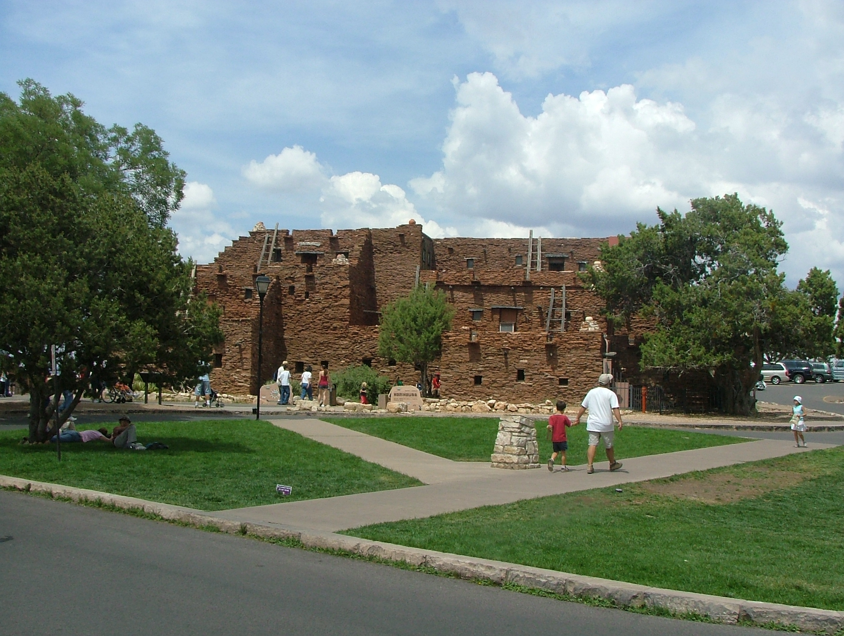 Hopi House in Grand Canyon Village, july 2006